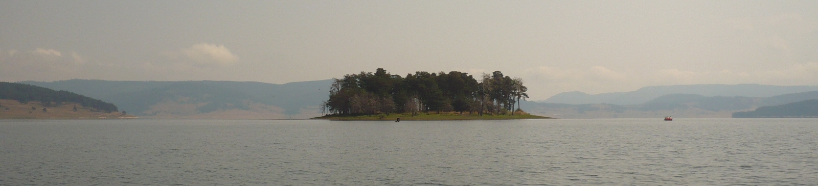 Panorama of the Batak dam in Southern Bulgaria.